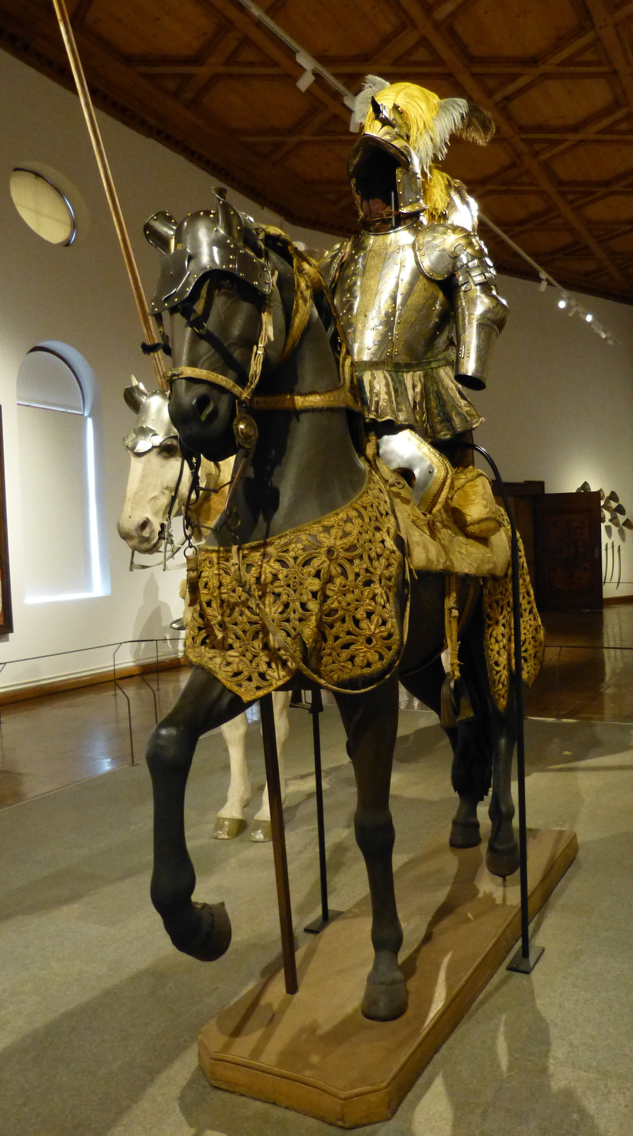 Ambras castle ( Tyrol ). Armoury: Wedding armour of archduke Ferdinand II, by Jacob Topf, Innsbruck ( 1580s )